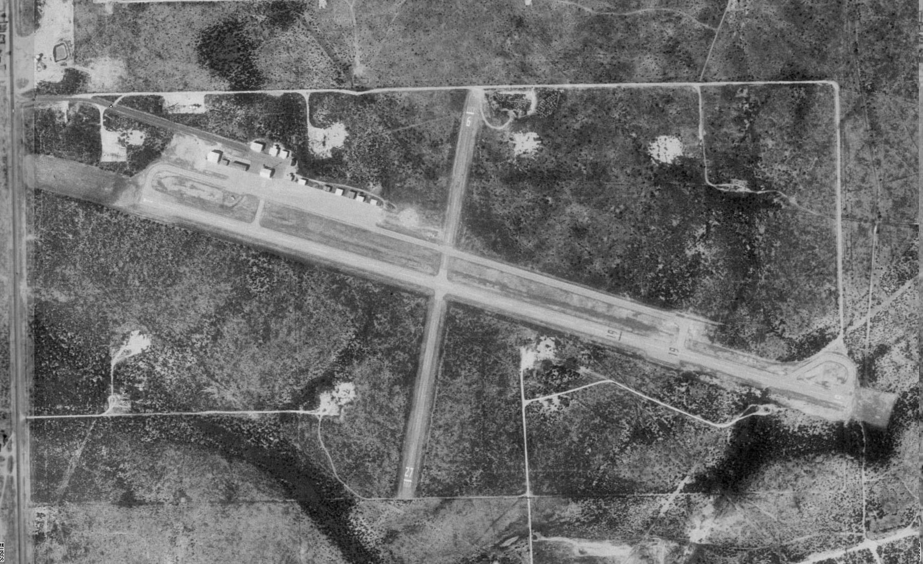 Aerial image of Lea County-Jal Airport in New Mexico, United States. The image has been rotated clockwise 90 degrees (North direction is to the right). N